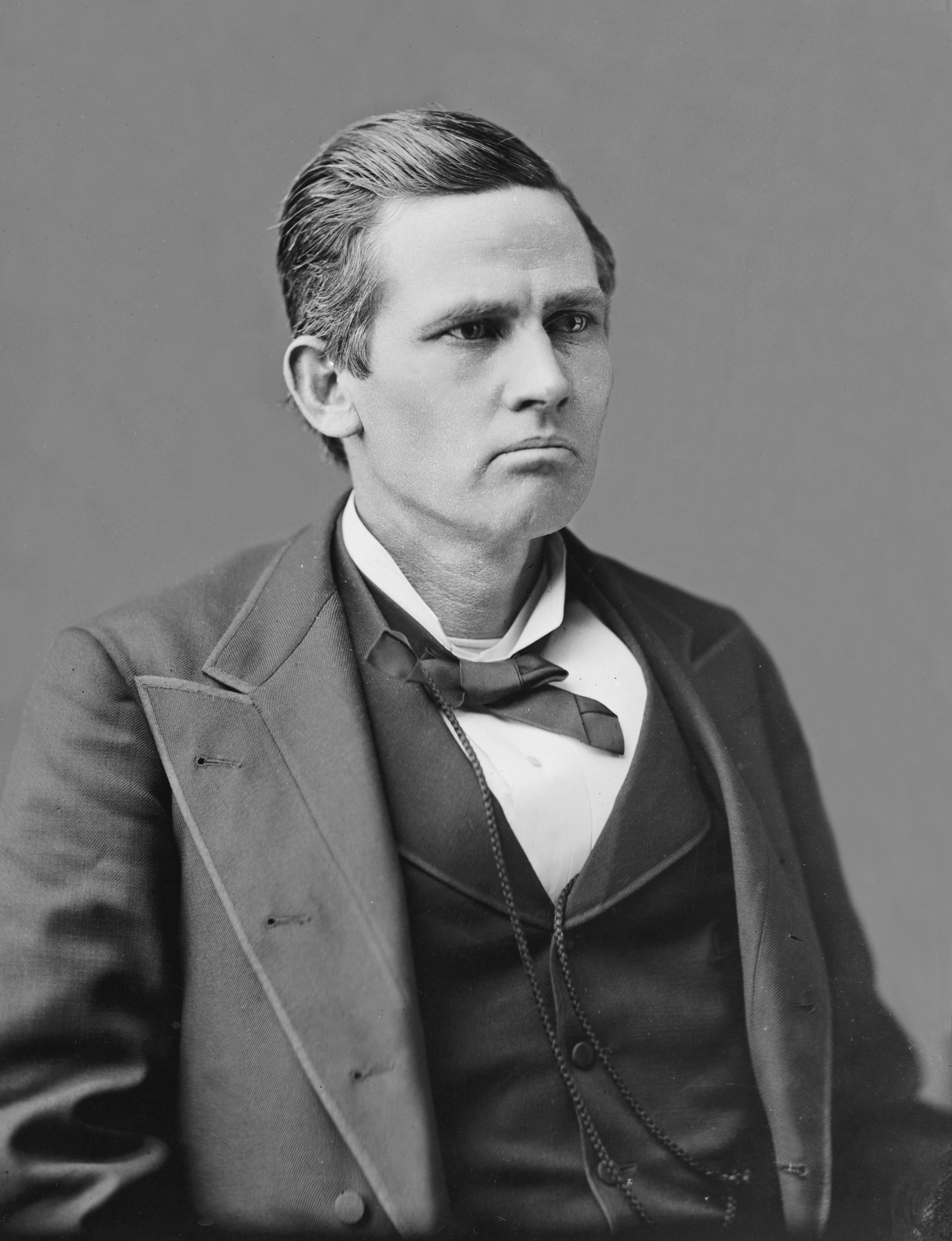 James Henderson Blount. Library of Congress description: "Blount, Hon. James H. of Georgia"